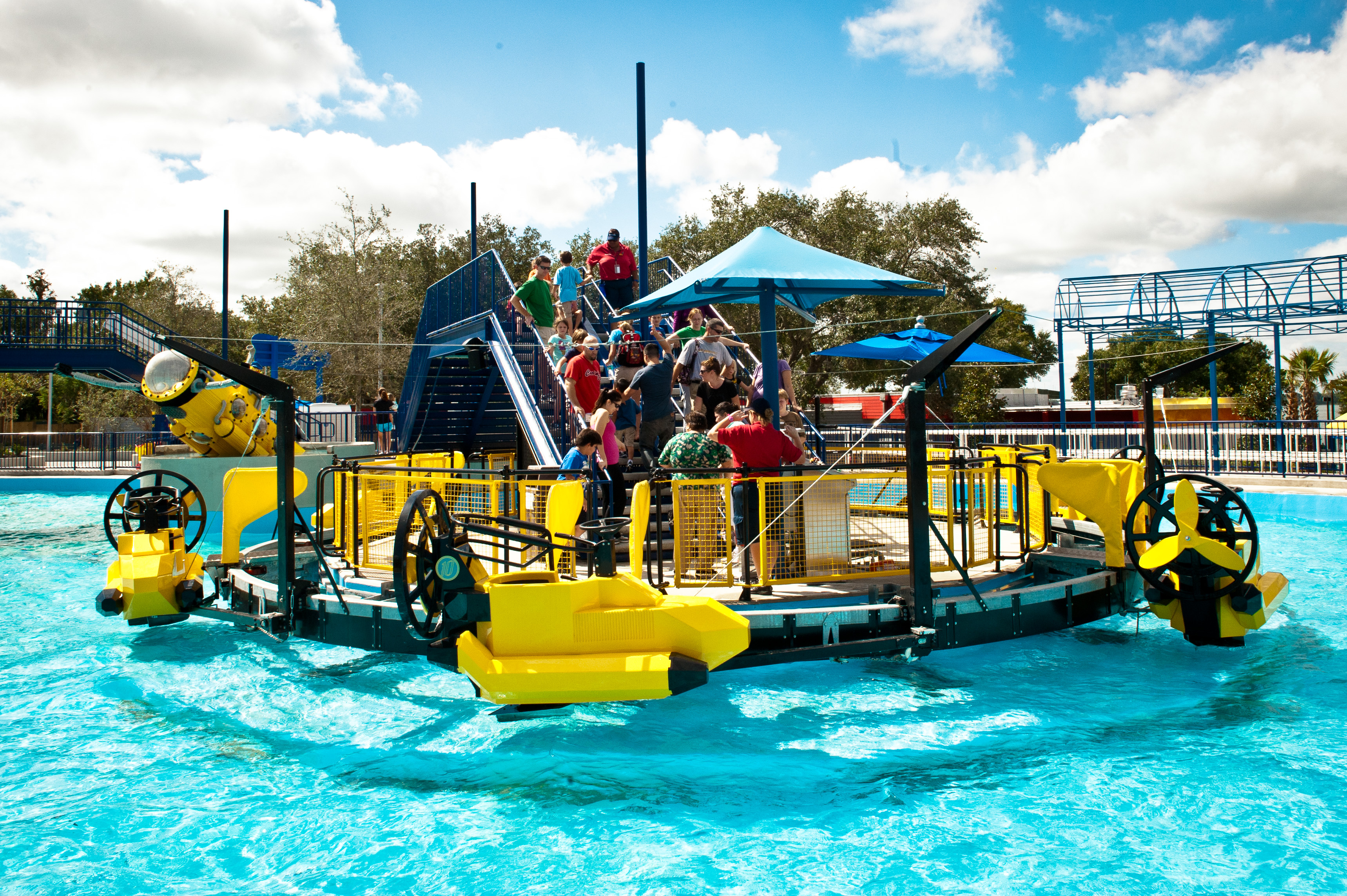 Aquazone Wave Racers at Legoland Florida